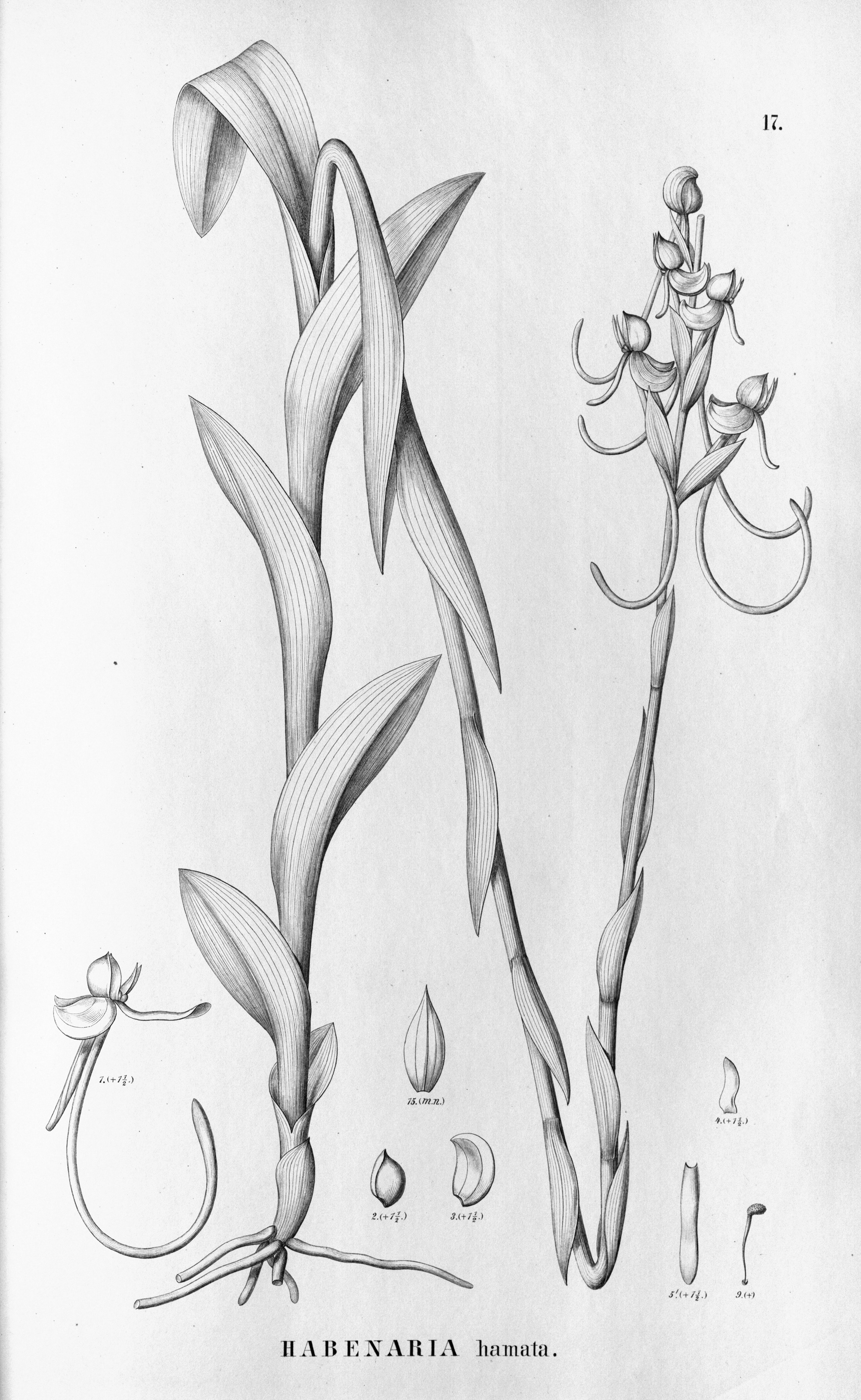 Illustration of Habenaria hamata